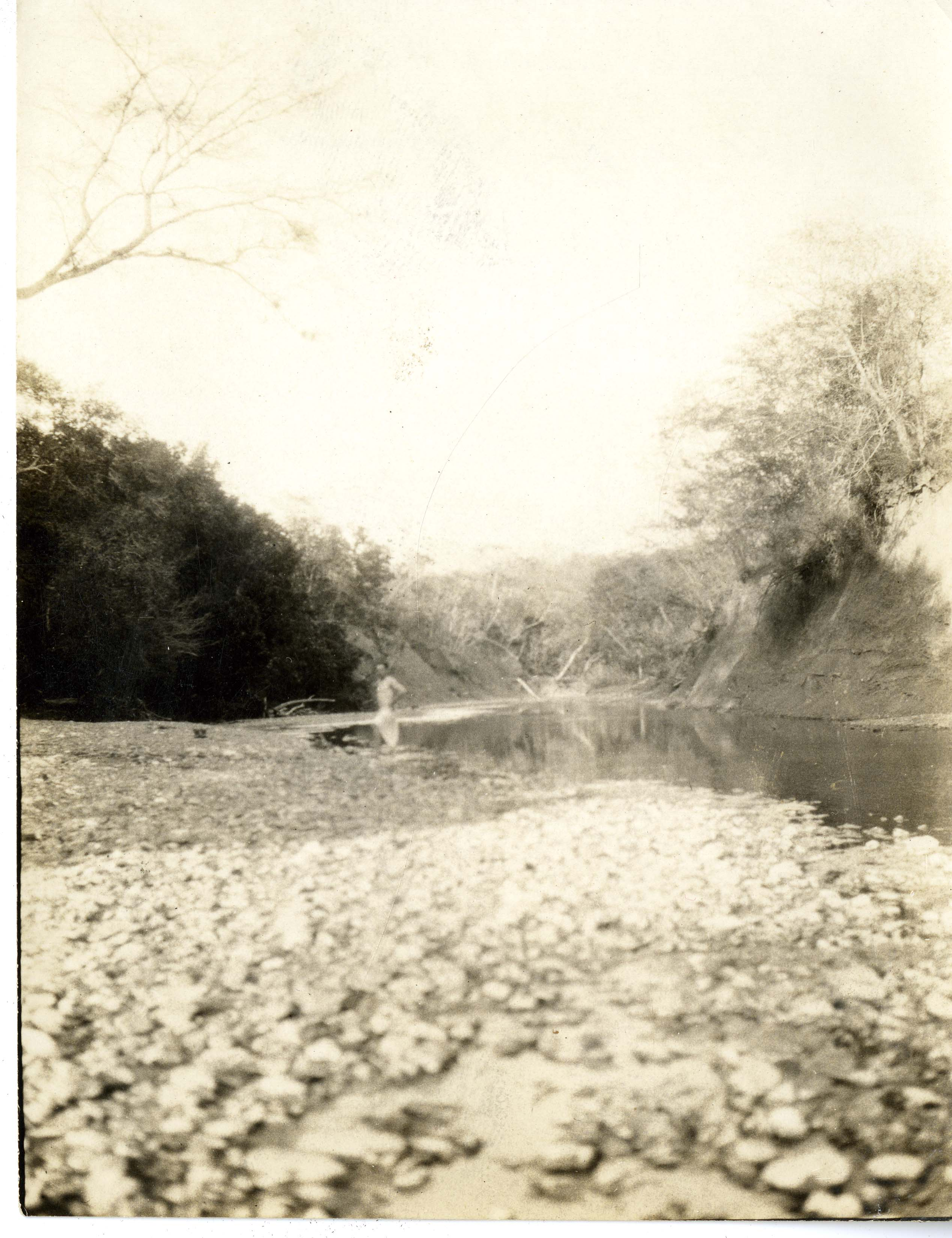 Creator: Watson Perrygo Local number: SIA2008-2500 Summary: The photograph documents Watson Perrygo's field work with Arthur J. Poole in Haiti. Dates: 1928-1929 Collection: SIA RU 7306, Watson M. Perrygo Papers, circa 1880s-1979. Box 2, Folder 10. Repository: Smithsonian Institution Archives View more collections from the Smithsonian Institution.